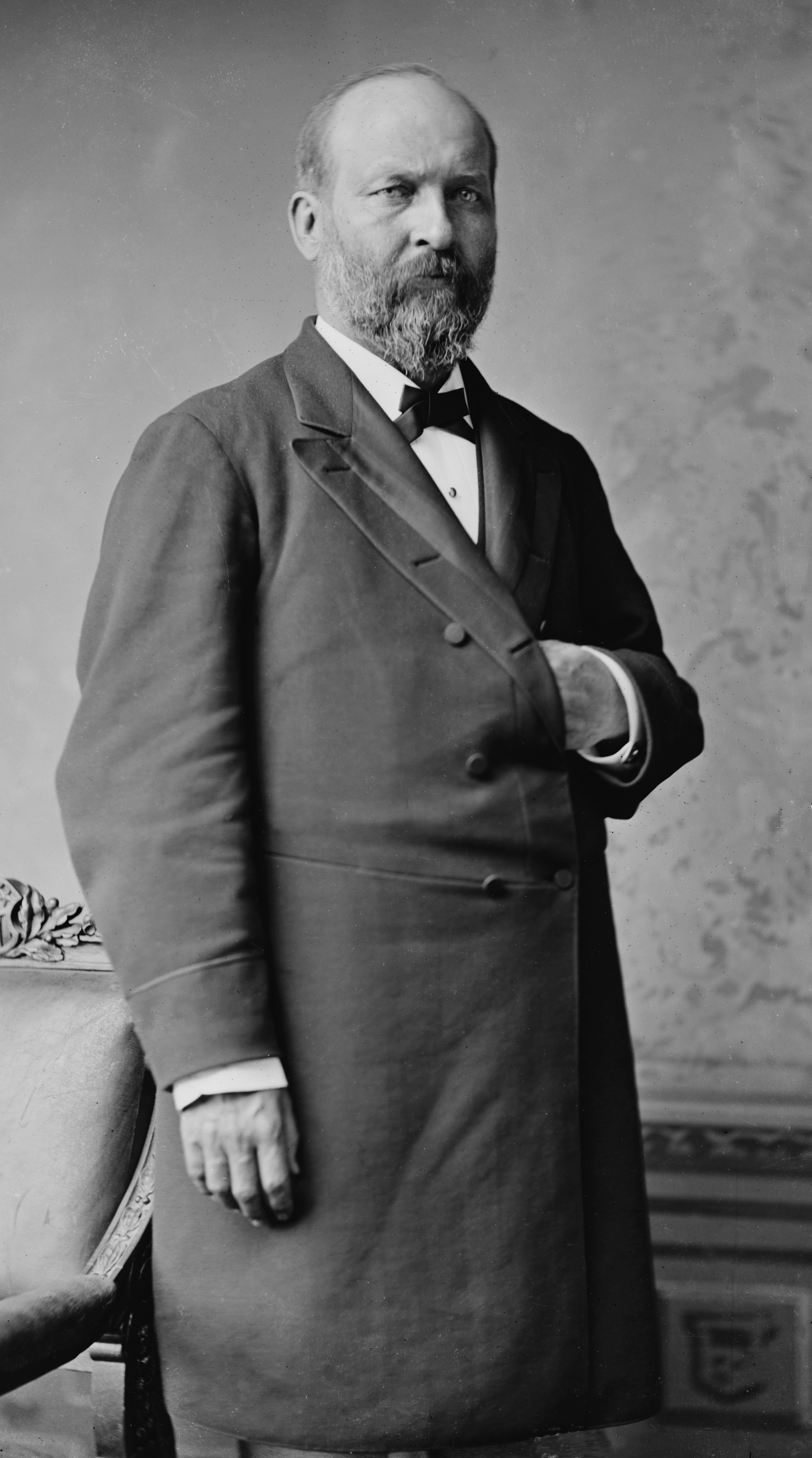 James A. Garfield wears an informal frock coat suit and has one hand inserted into the front of the jacket.